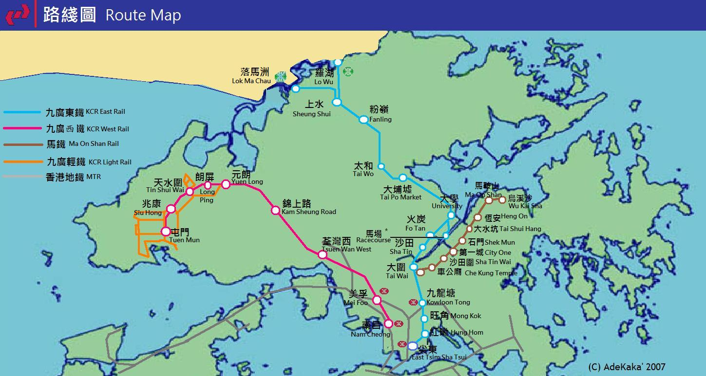 The KCR Network Map before rail merger.